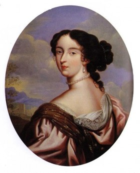 Françoise d'Aubigné, Marquise de Maintenon